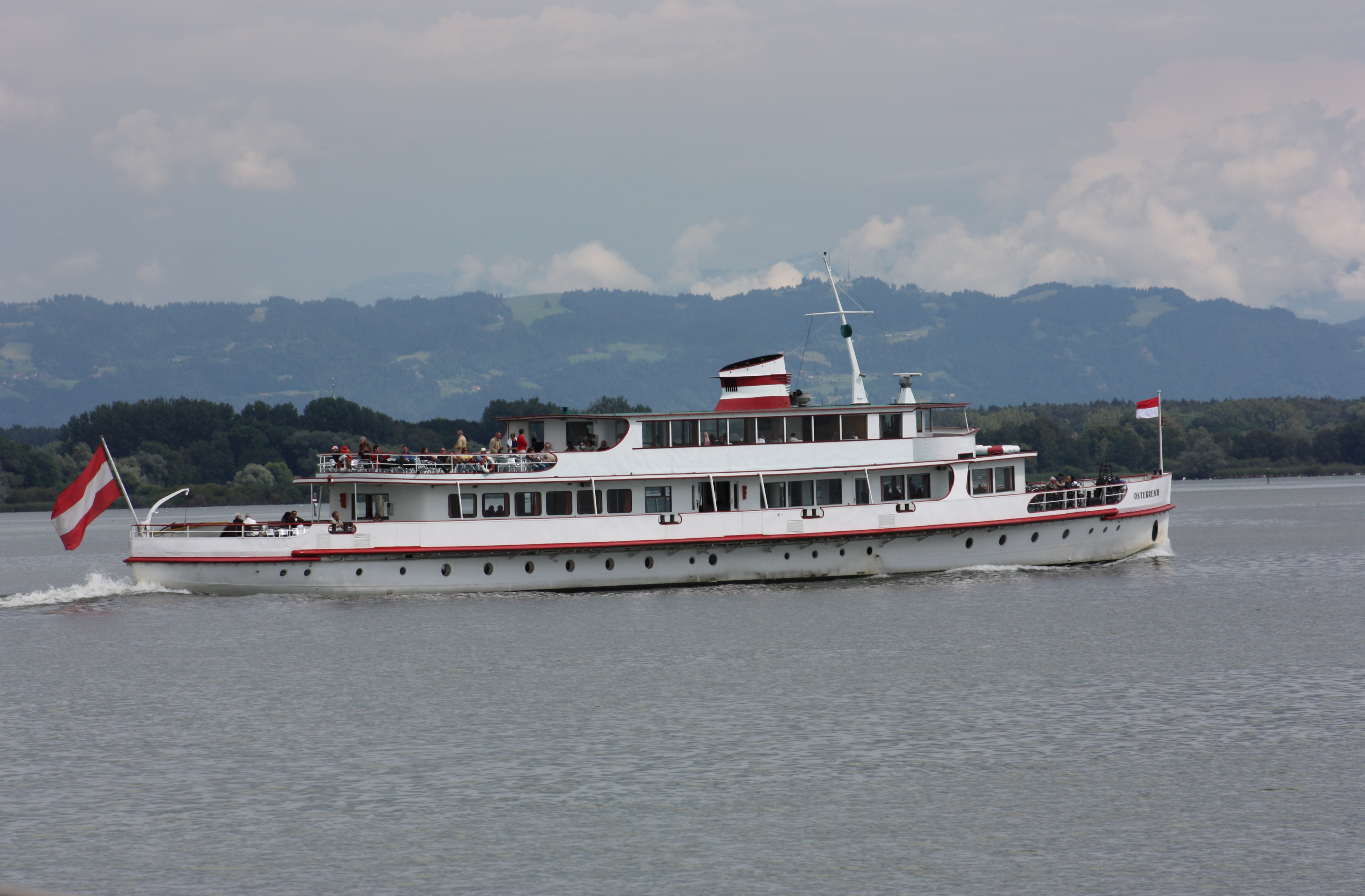 "MS Österreich", passenger ship on Lake Constance